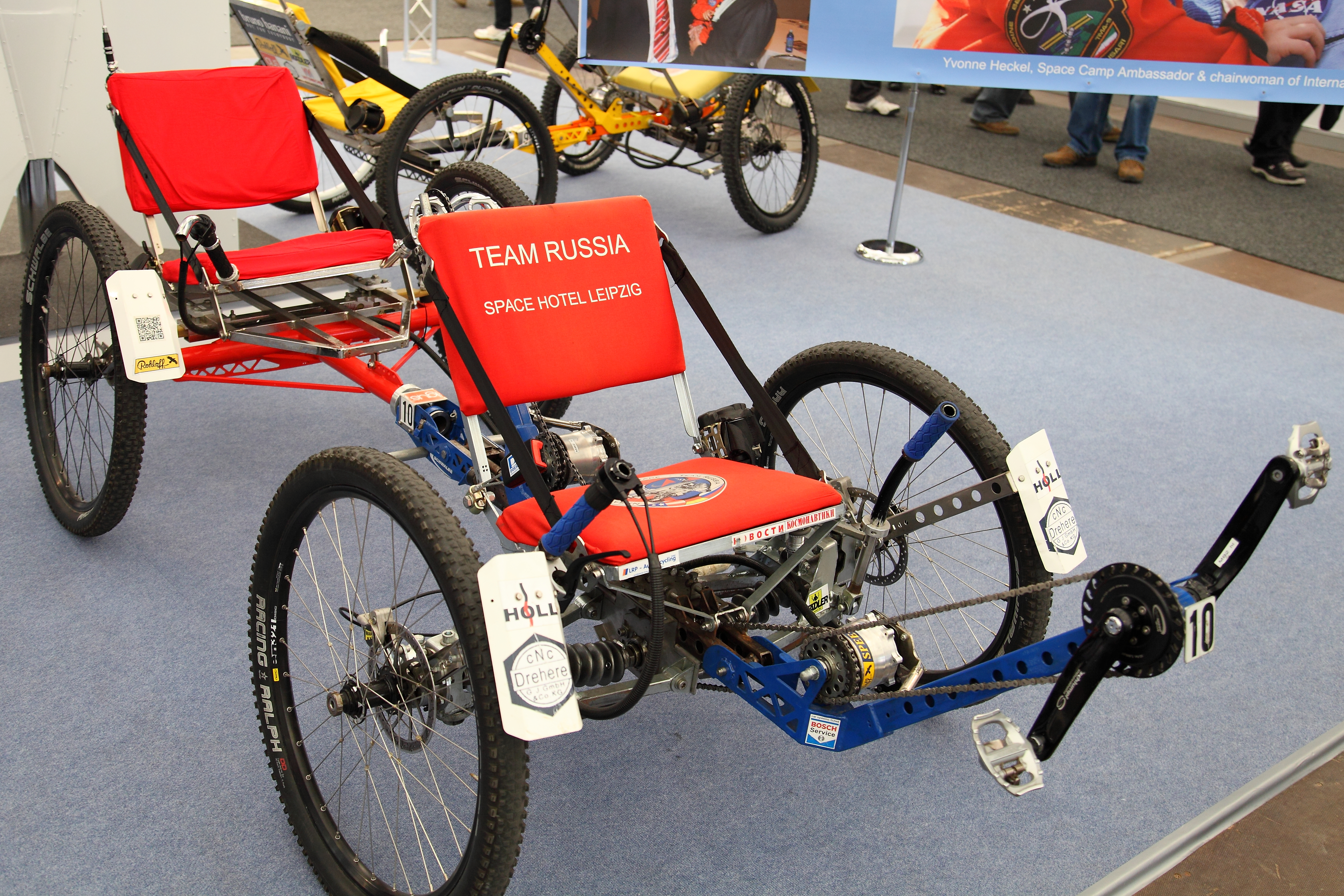 ILA Berlin Air Show 2012